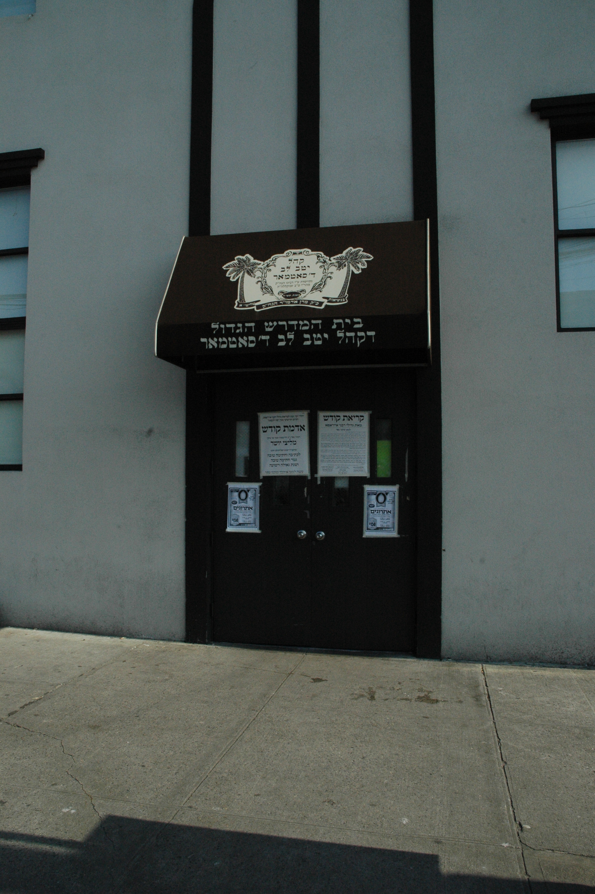 This photo is of Wikis Take Manhattan goal code J32, Kehilas Yetev Lev D'Satmar (Williamsburg, Brooklyn).